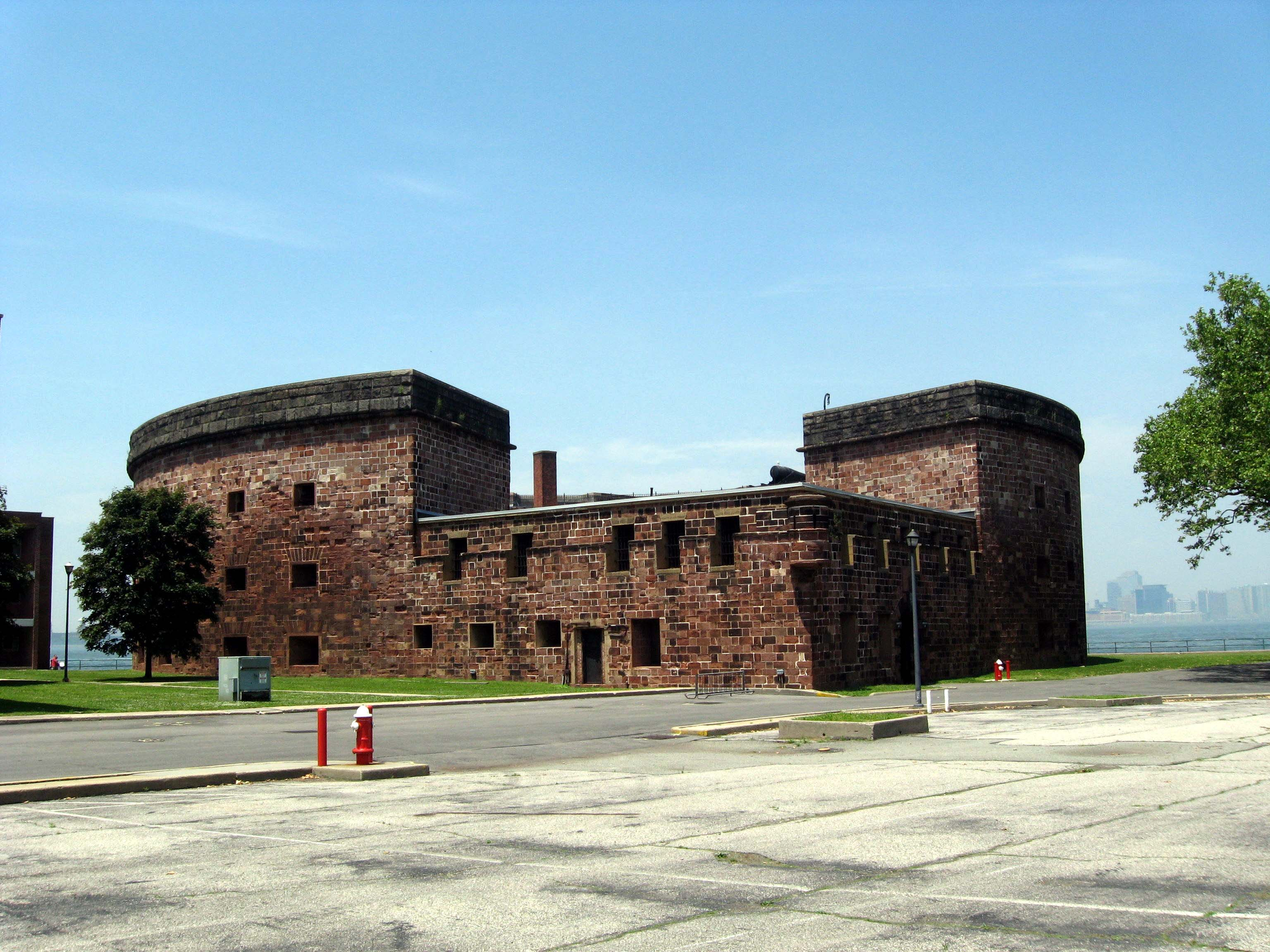 Land side of Castle Williams at Governors Island at midday in June 2008